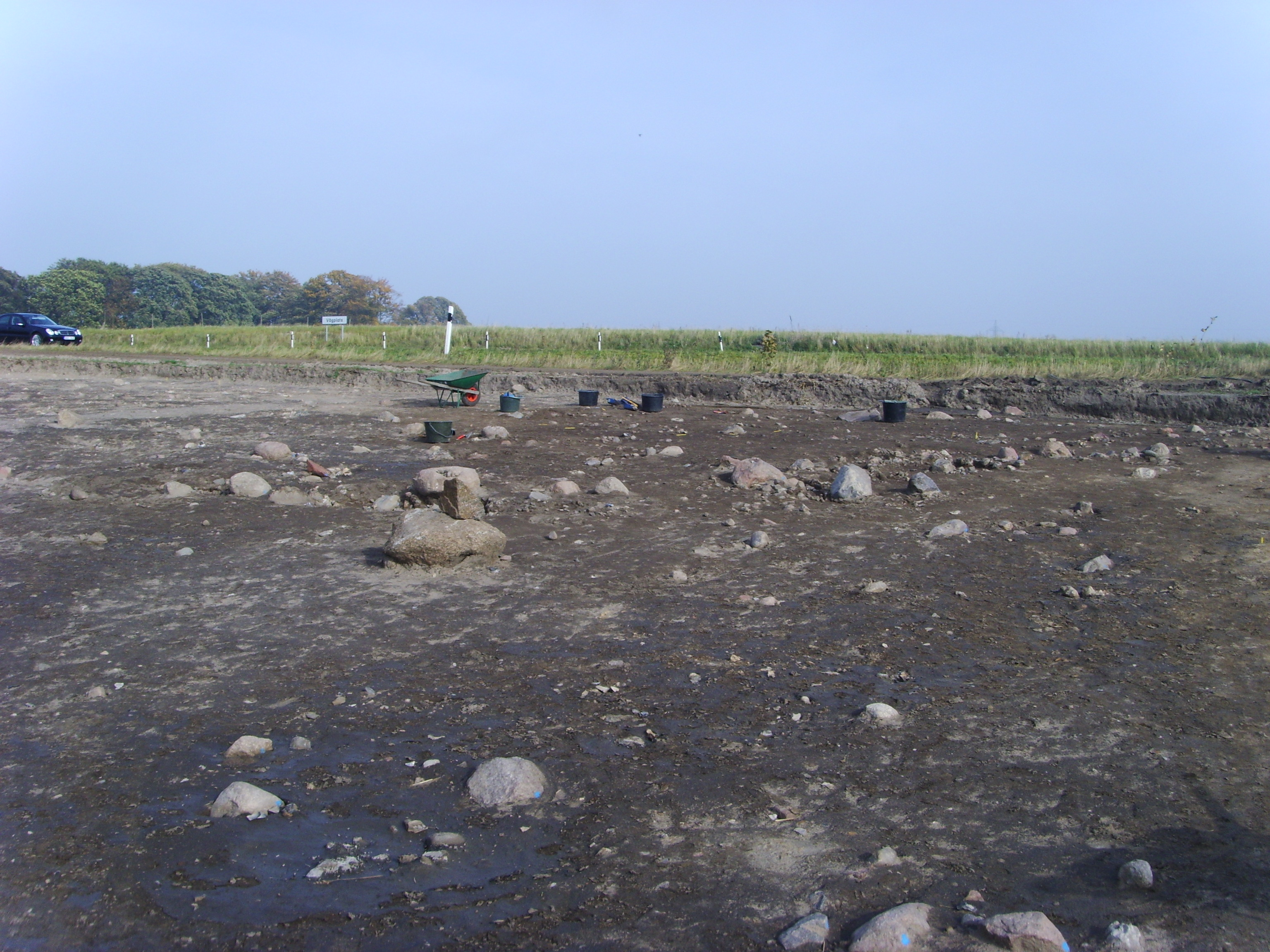 Archaeologists have in the years 2007-2008 found a unique place of worship for Sweden from the Stone Age at Döserygg just north of Trelleborg. It is a complex consisting of a ritual way similar to those found at Stonehenge in England. The road leading to the large megalithic stone graves, where the stone blocks have been the roof over their graves. Offer rewards found in the wetland. Over a thousand years, people gathered at Döserygg for funerals and other rites. Fourteen megalithic tombs have been found on a relatively small area, The area has been a ritual way. Archaeologists have found that it has been surrounded by densely standing man-high piles of trees, making way unique in Scandinavia. Comparable to similar archaeological remains in England, where there is a procession routes and ceremonial roads leading into the major monuments.